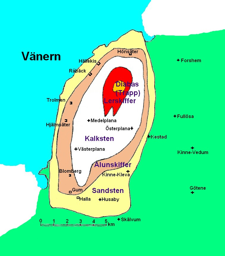 The layers of sedimentary rock, at the mountain Kinnekulle in Västergötland, Sweden.